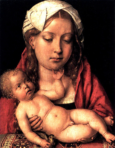 Katherine of Aragon, painted as the Virgin Mary in the early 1500s.